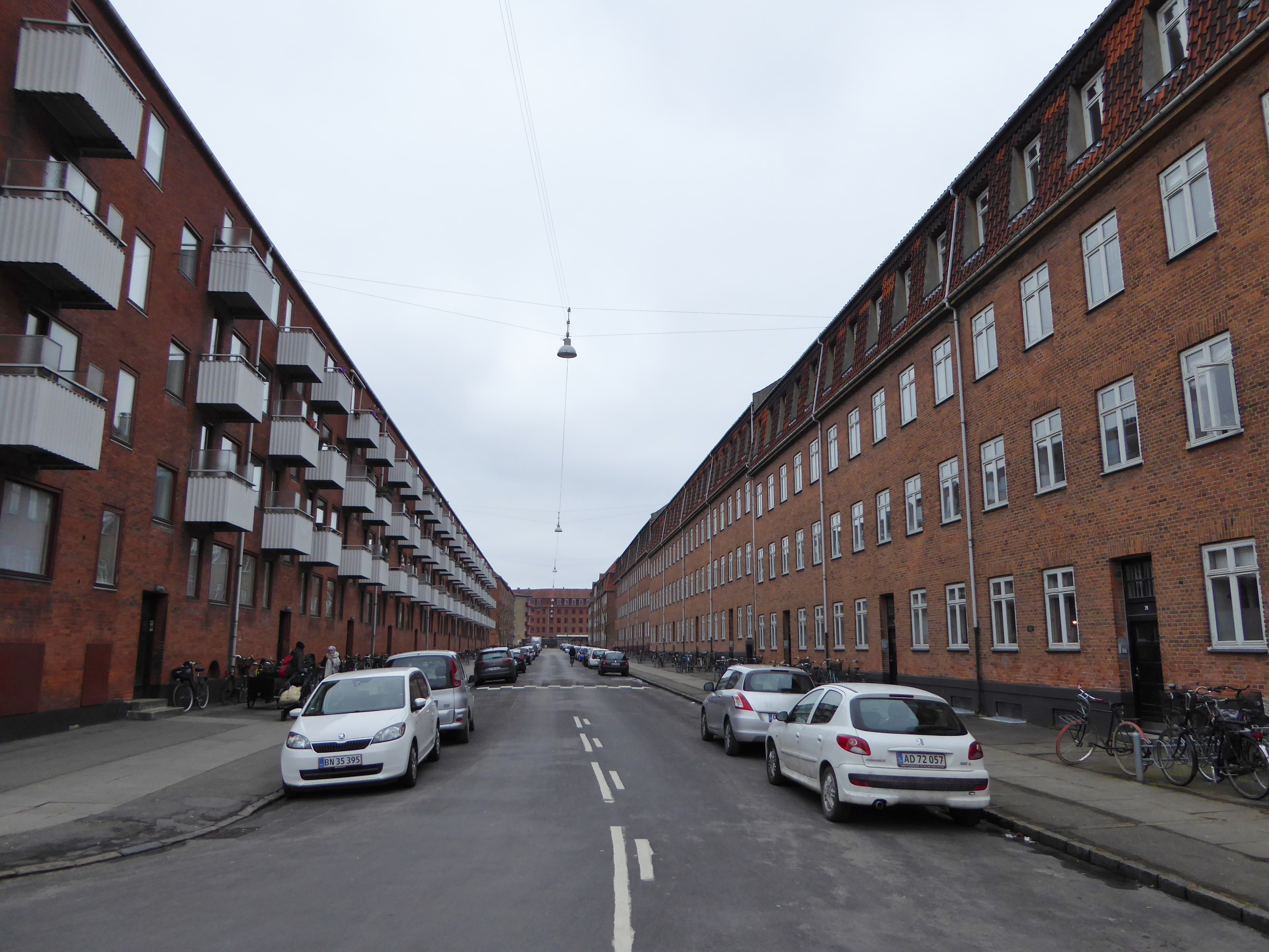 The street Valkyriegade in Nørrebro in Copenhagen.